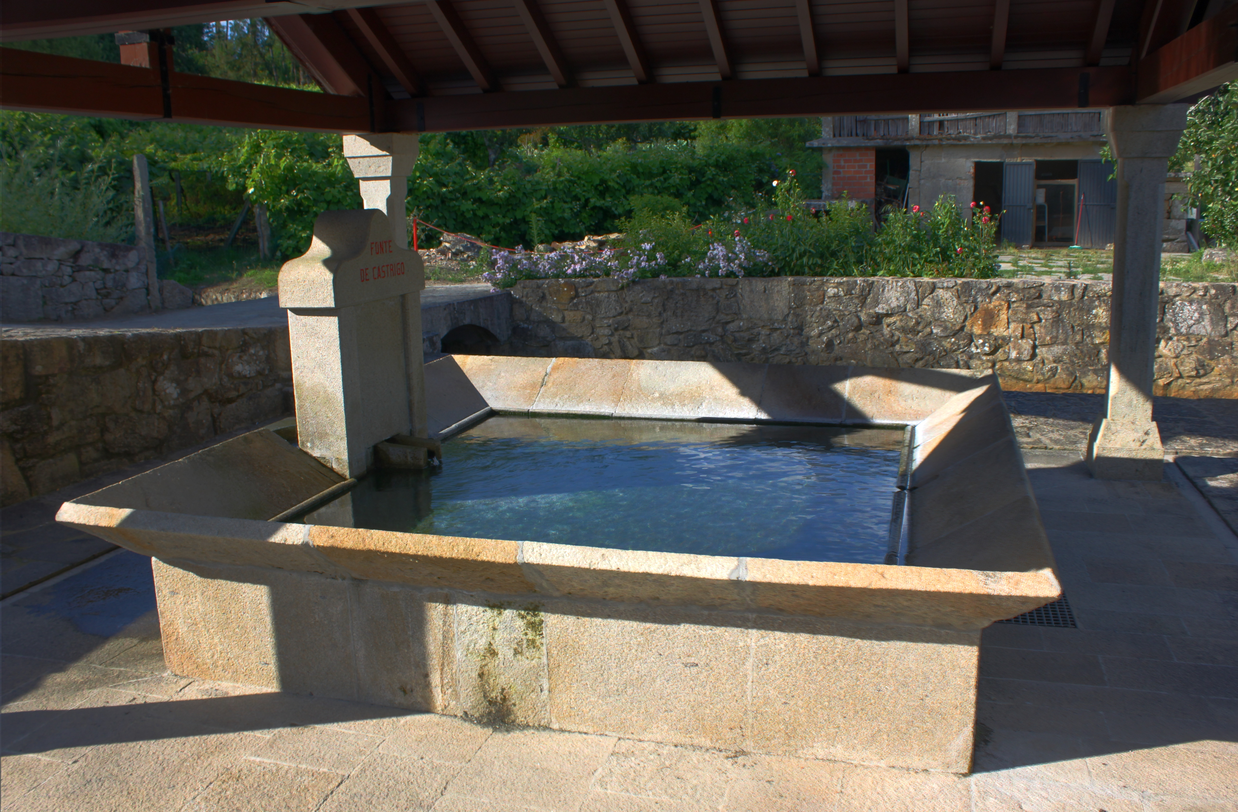 Fountain of Castrigo, in Ames, Galicia, Spain.